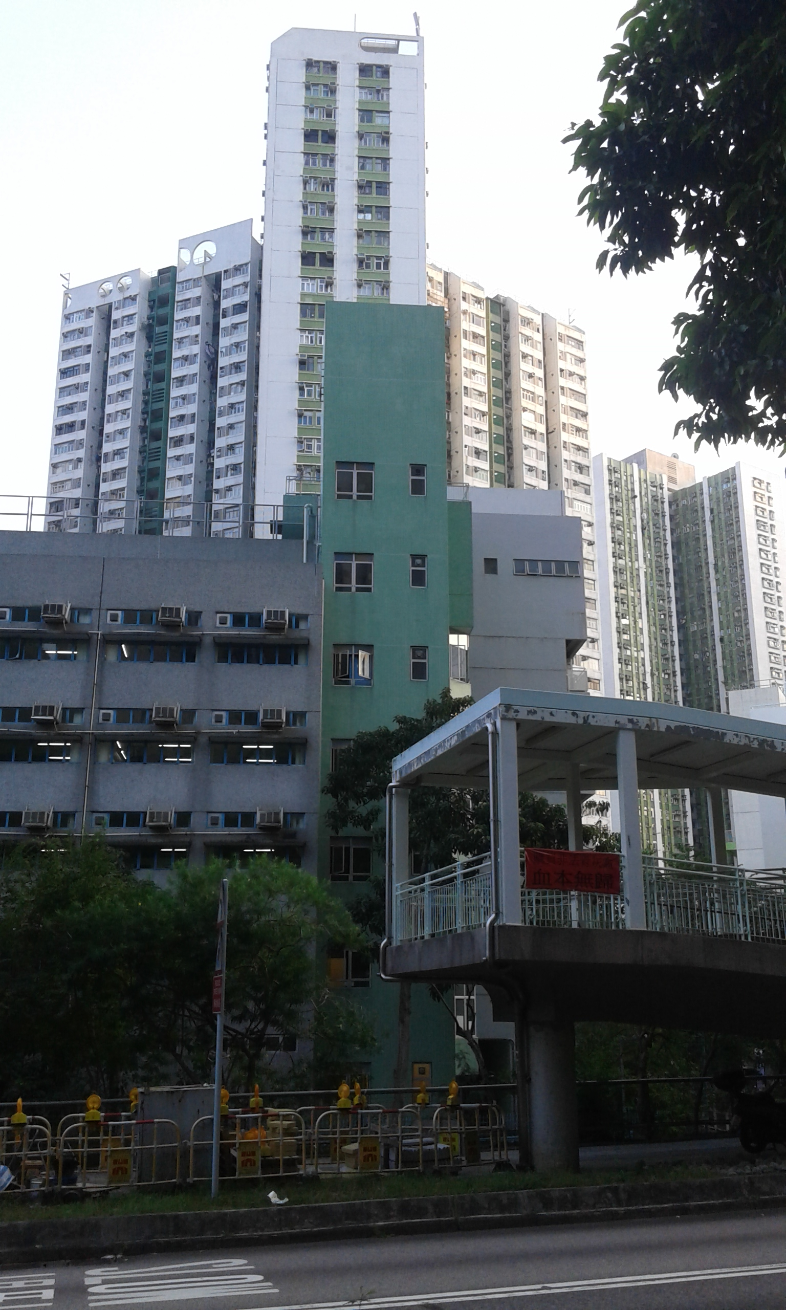 Mei Tin Road in Tai Wai, Sha Tin District, Hong Kong.